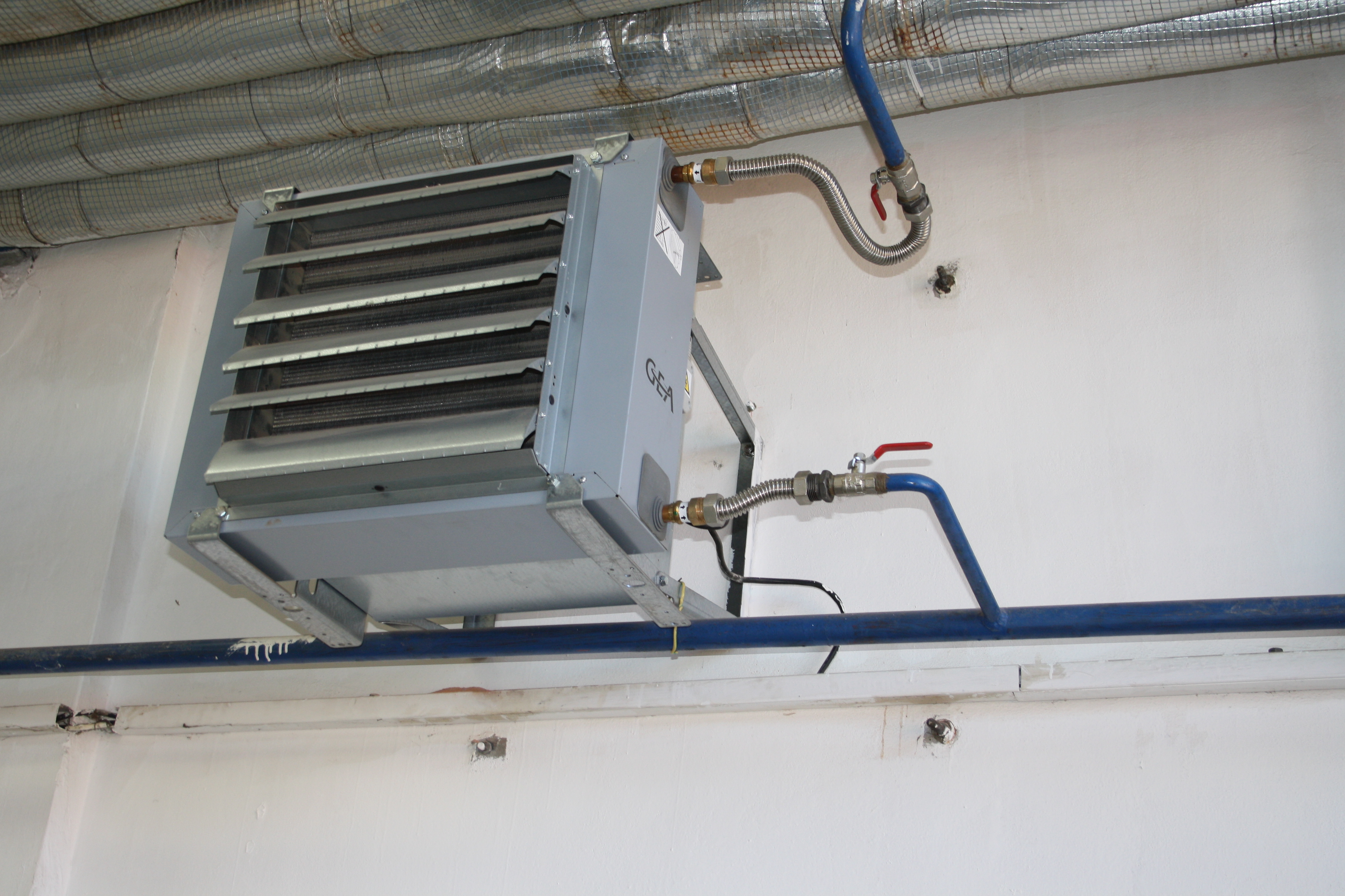 Air treatment unit/unit heater